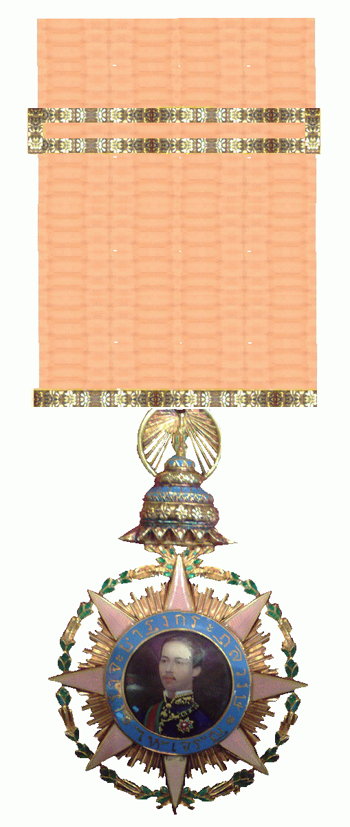 Order of Chuka Chm Klao Siam/Thailand